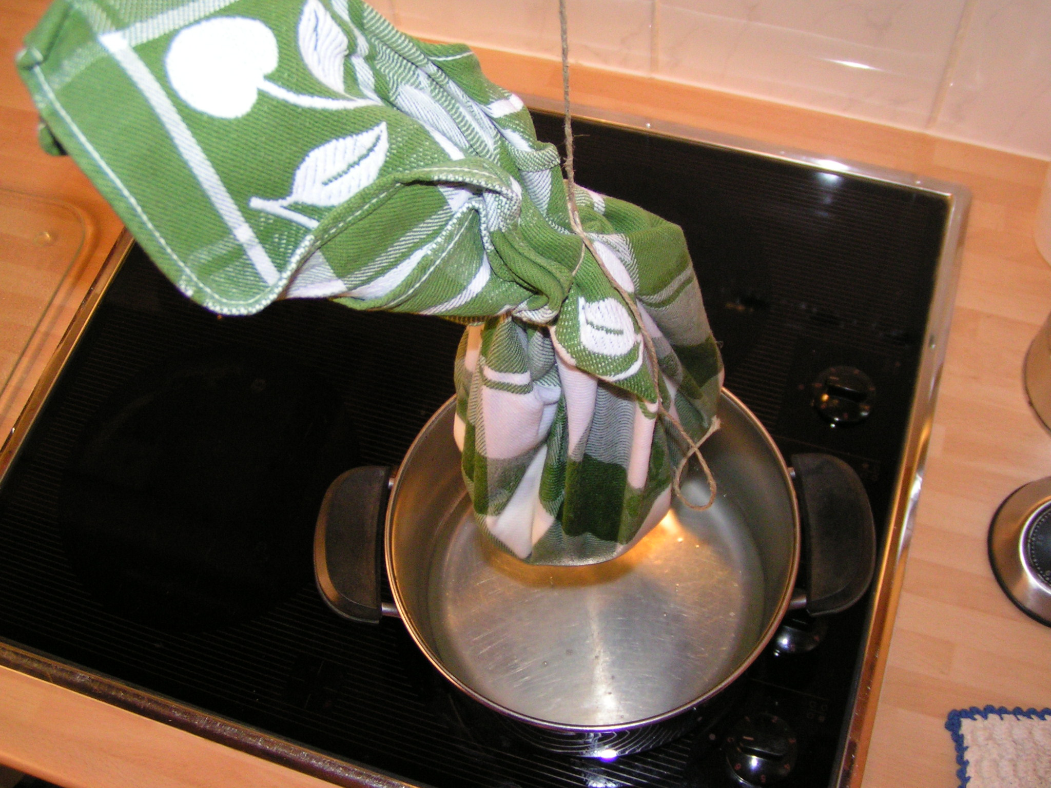 Hangop, Dutch dessert made of yoghurt drained in a dish towel